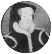 Catherine Willoughby, Duchess of Suffolk, suo jure 12th Baroness Willoughby de Eresby (22 March 1519 - 19 September 1580), was a noblewoman living at the English courts of King Henry VIII, King Edward VI and later, Queen Elizabeth I. Noted for her Protestant reform views, she fled abroad to Wesel and later Poland during the reign of Queen Mary I, Catherine Willoughby (called Catherine Brooke in the series)Brandon's ward & his son's betrothed who became his 3rd wife (after the death of Princess Mary - called Princess Margaret Tudor in the series)& mother of Charles & Henry 2nd and 3rd Dukes of Suffolk Miniature of Catherine Willoughby, by Holbein, Grimsthorpe and Drummond Castle Trustees